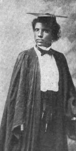 Photograph of an African-American woman, Althea M. Brown, standing, in academic cap and gown, from a 1902 publication.